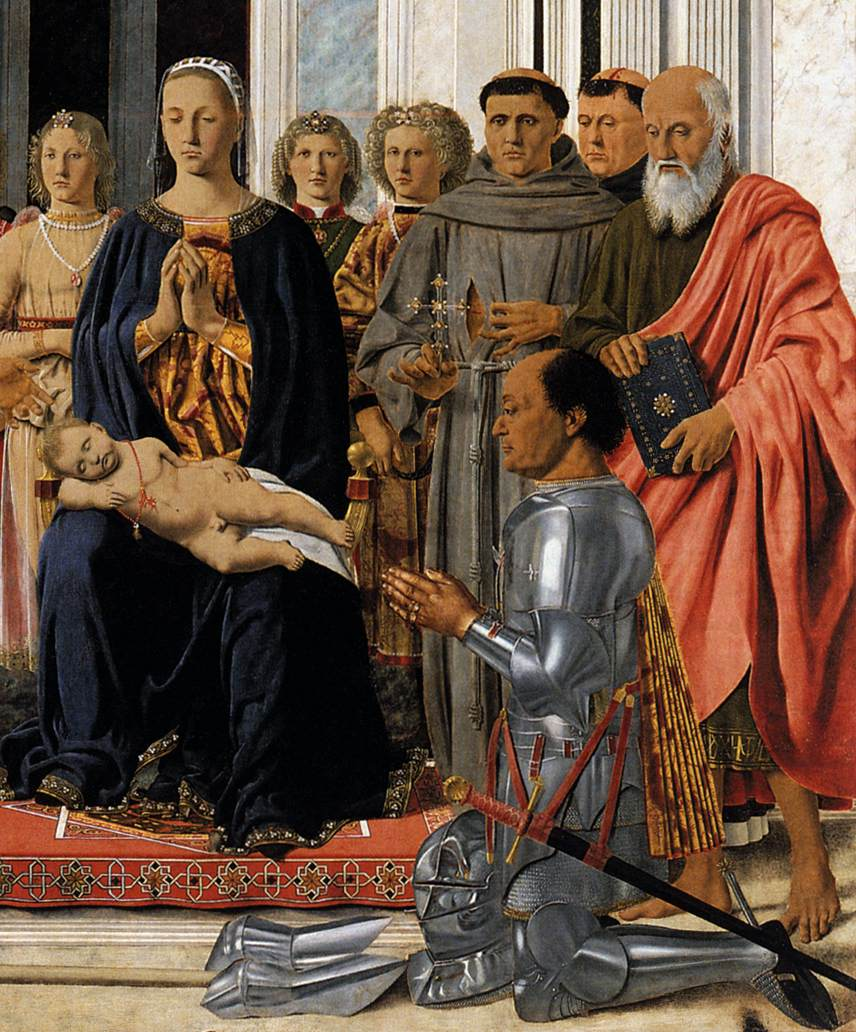 PIERO della FRANCESCA Madonna and Child with Saints (Montefeltro Altarpiece) Oil on panel, 248 x 170 cm Pinacoteca di Brera, Milan